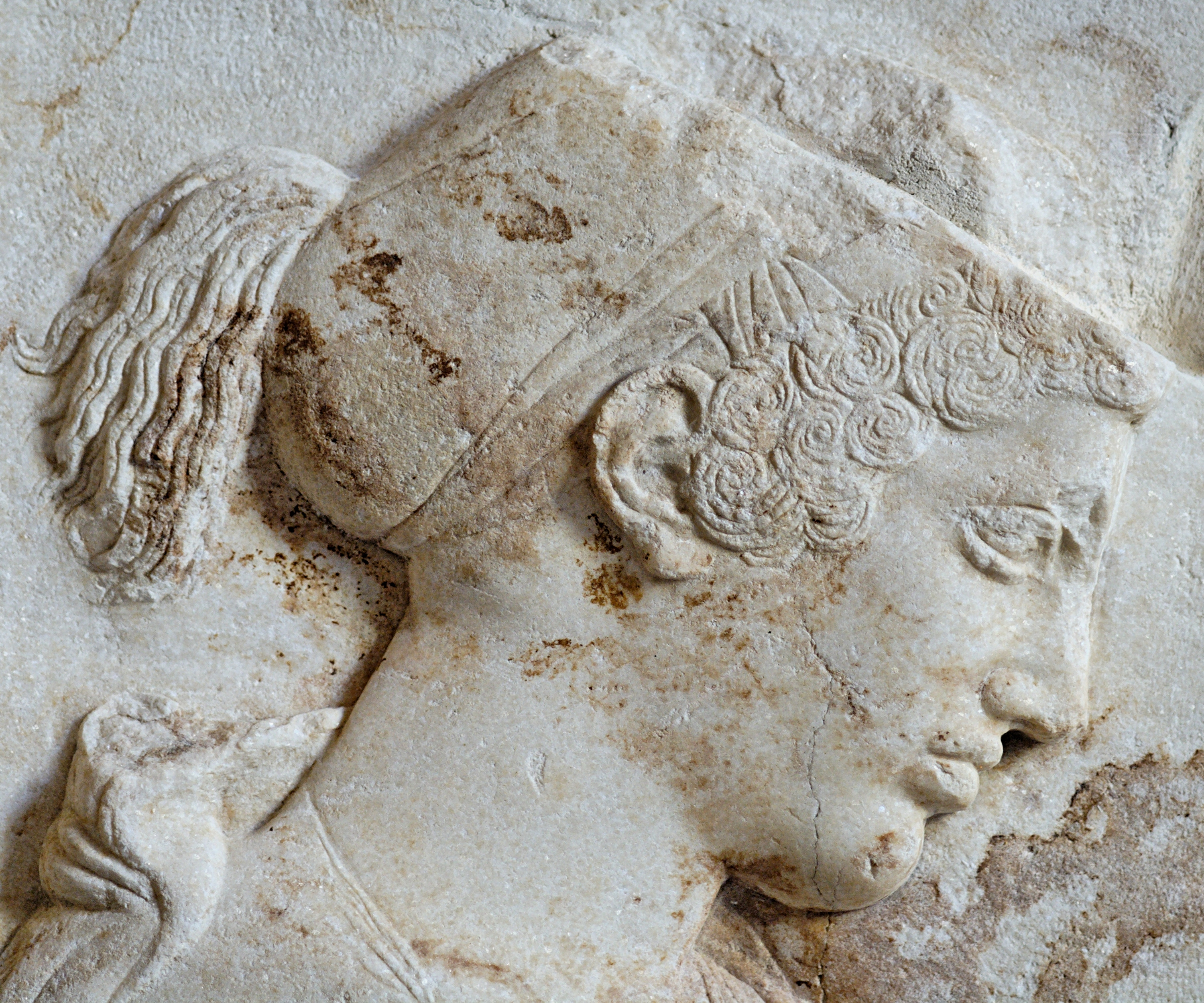 Portrait of Philis, daughter of Kleomenes, wearing a kekryphalos (hair net), detail from a funerary stele. Thasian marble, ca. 450 BC. Found in Limenas, Thassos' harbour.